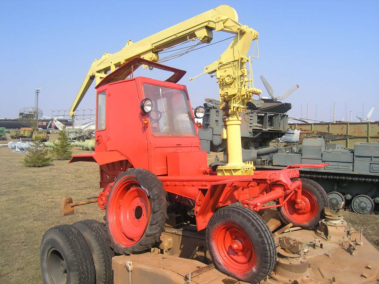 T-16 tractor in Technical museum Togliatti